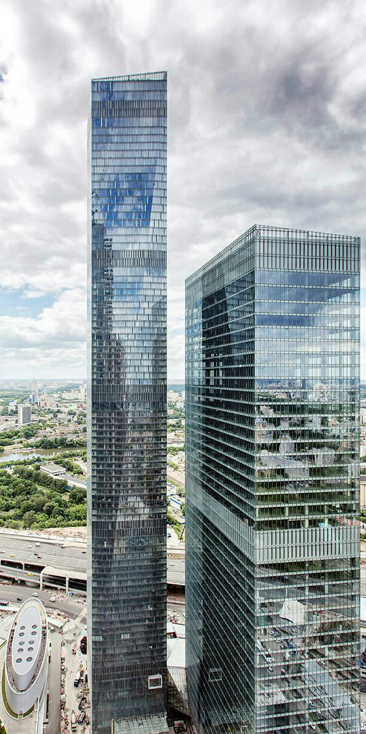 OKO Towers in Moscow